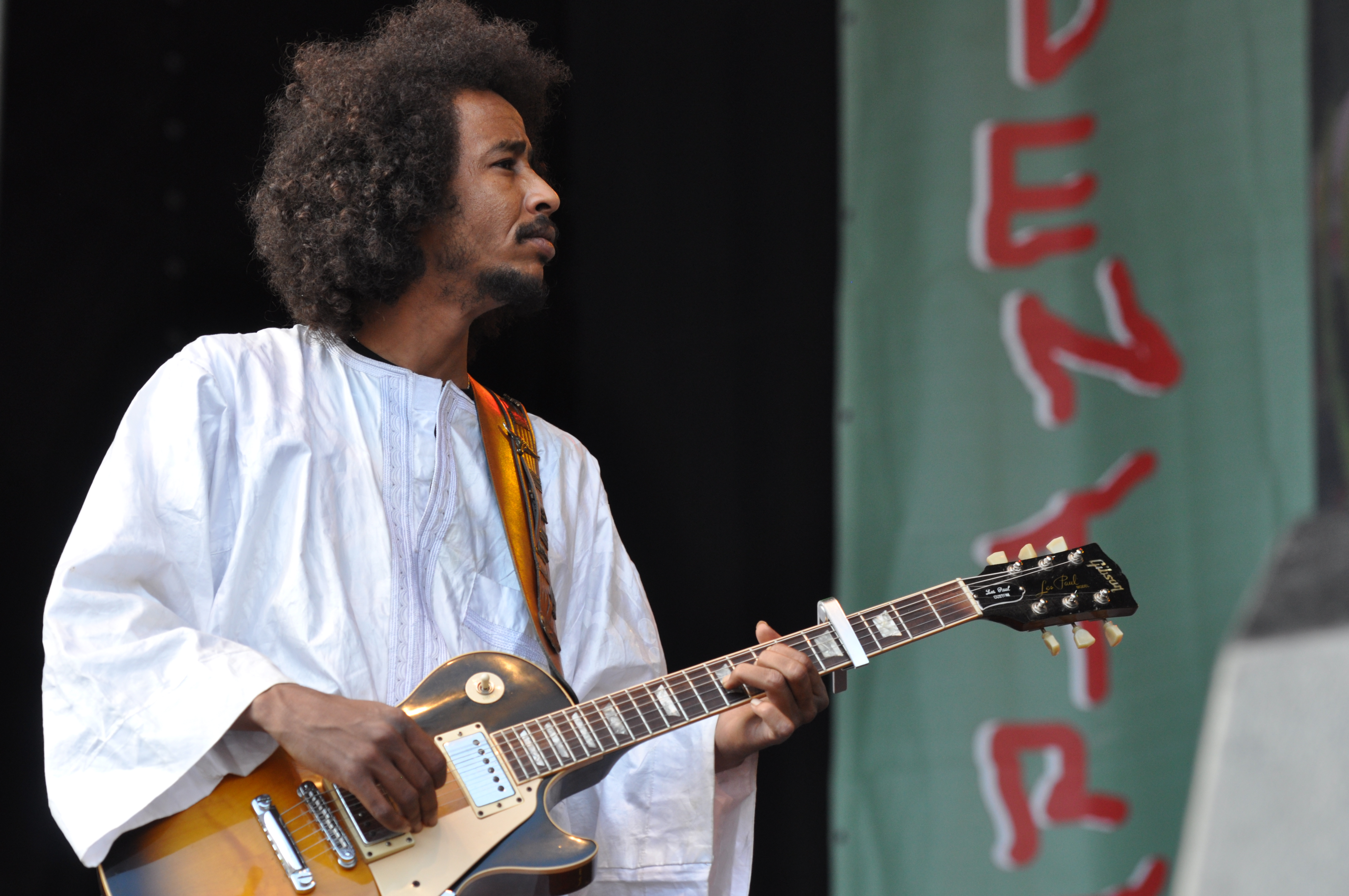 Tamikrest (Mali), appearance at the 39th music festival "Bardentreffen" 2014 in Nuremberg, Germany, Hauptmarkt stage